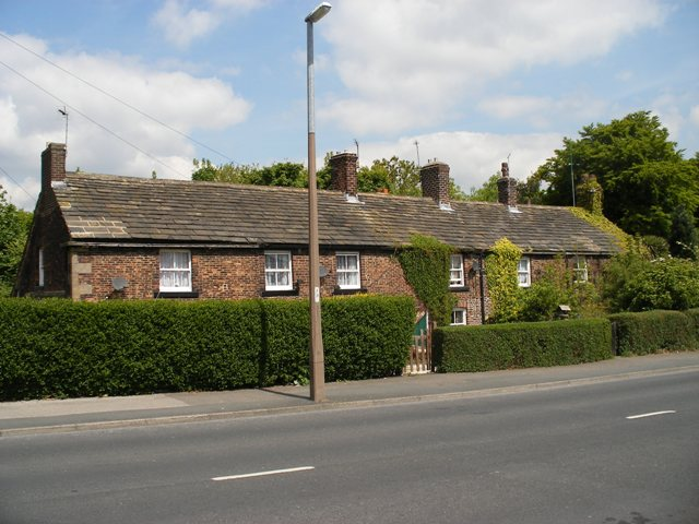 These cottages are situated in Town Street, Middleton, south Leeds, West Yorkshire, England. The trees behind are in Middleton Park which contains the largest area of ancient woodland in West Yorkshire.